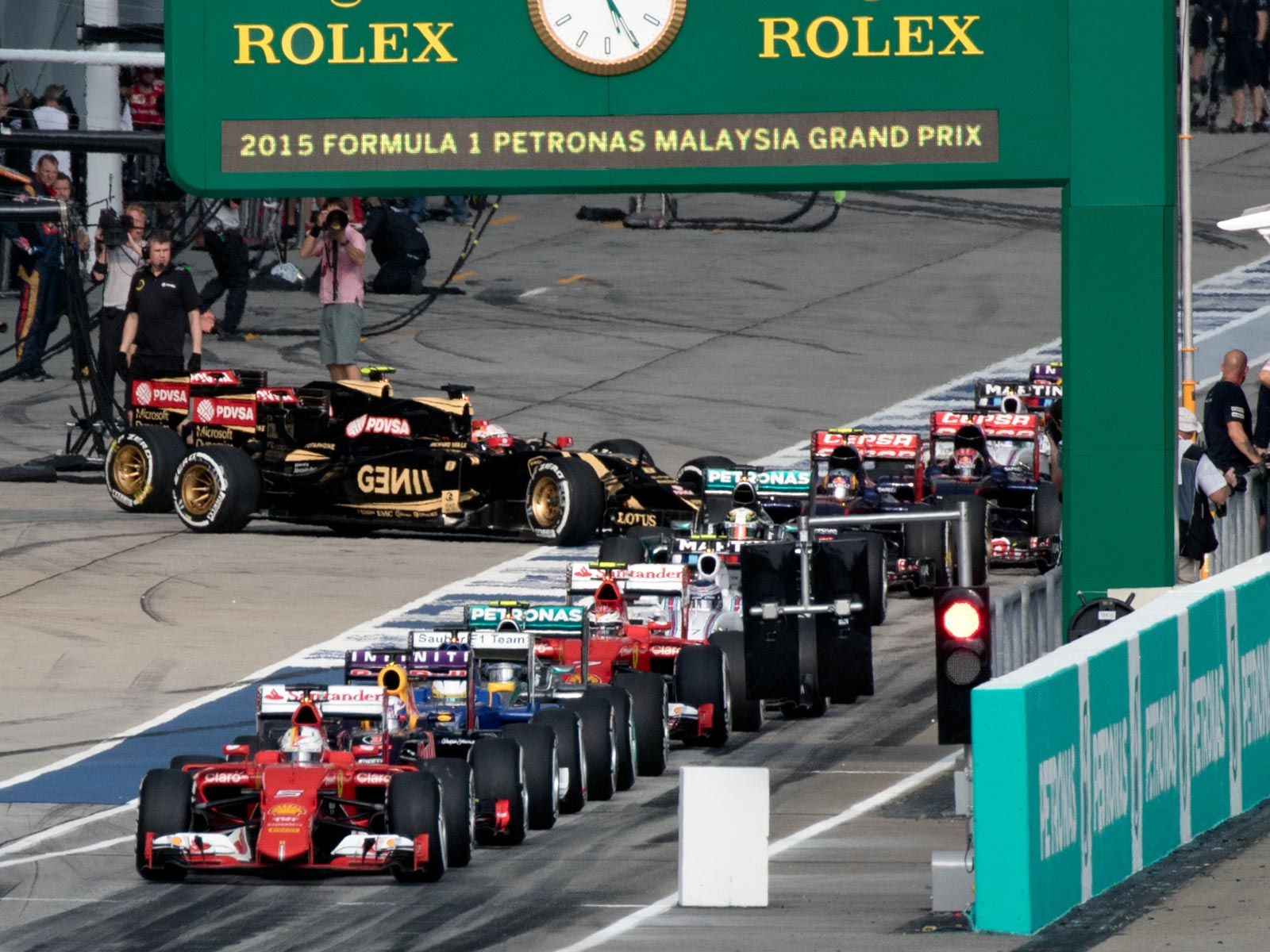 Formula One 2015 Rd.2 Malaysian GP: Before the 2nd qualify session